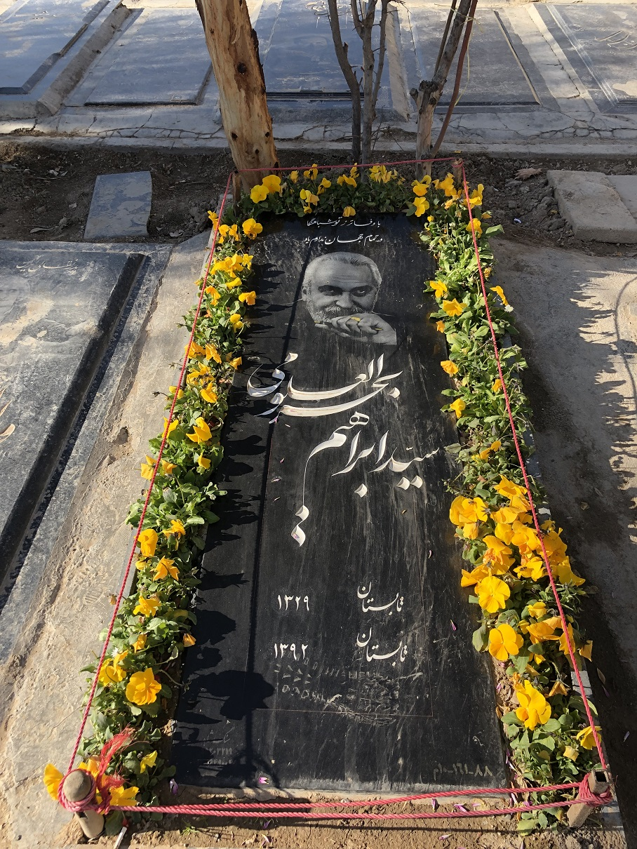 Beheshte Zahra Cemetery